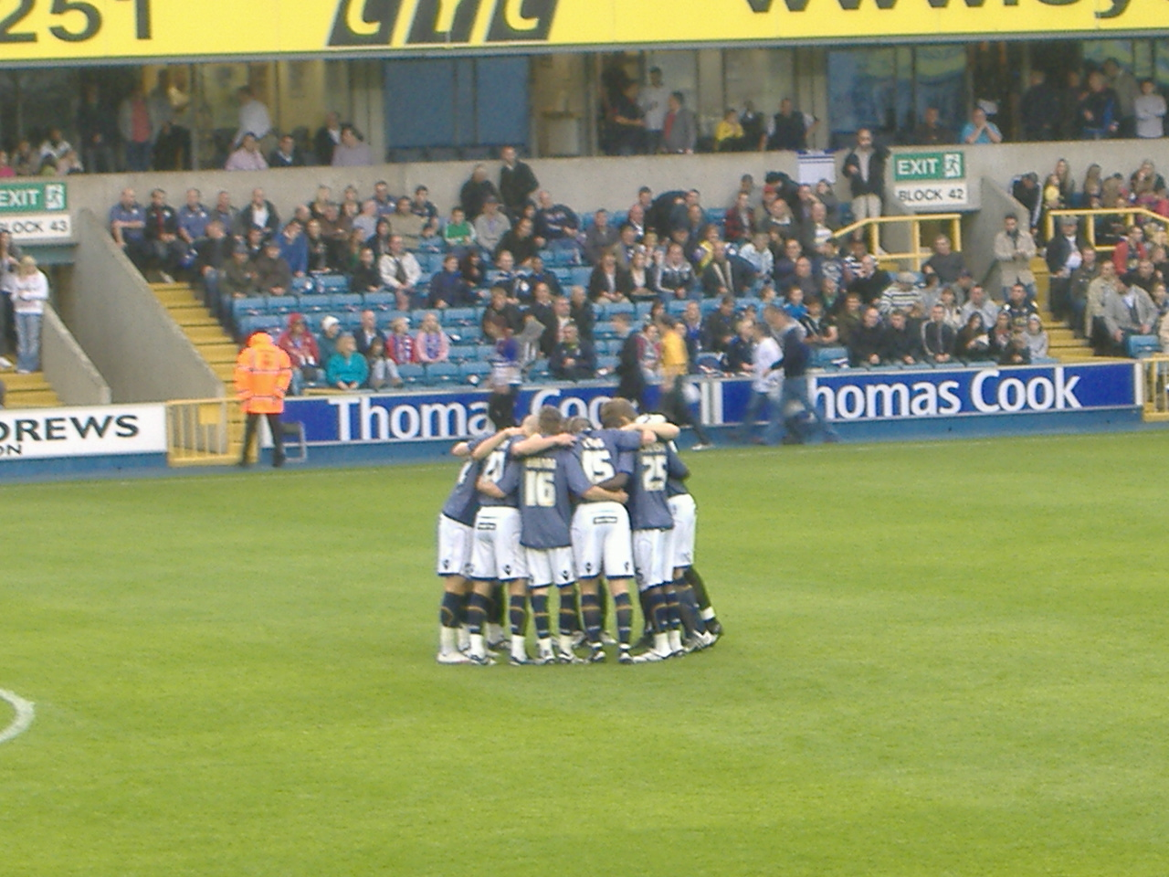 The Millwall team form a huddle before kick off.